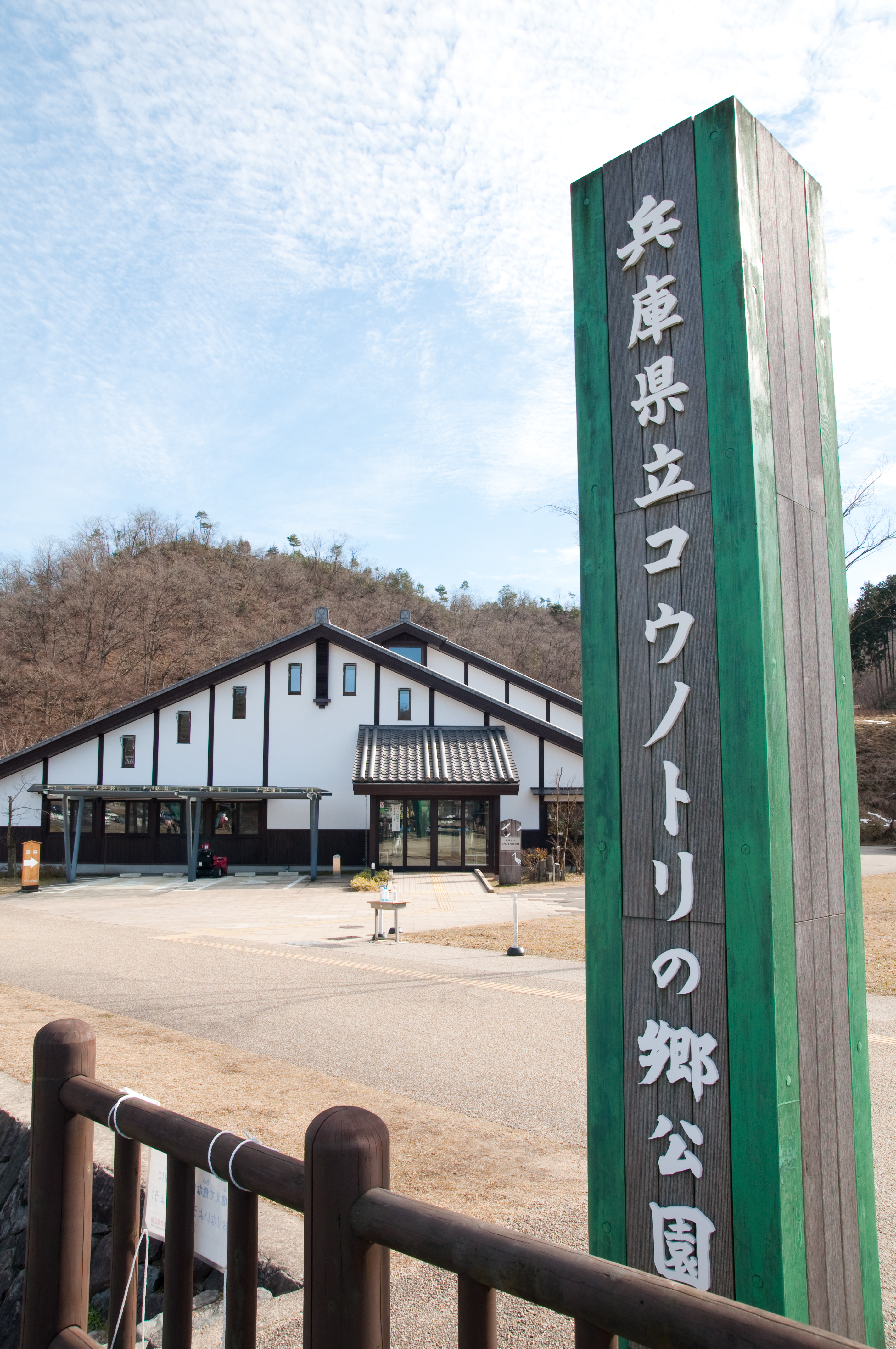 Stork's village park.